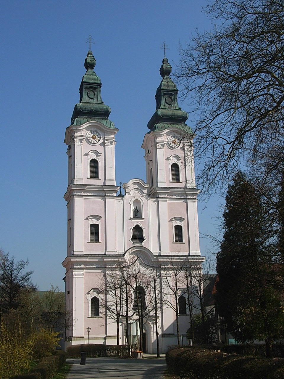 Vornbach, western facade of Parish Church of the Assumption (church of the former Benedictine abbey).